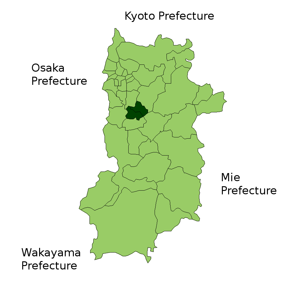 Location Map of Takaichi District in Nara Prefecture, Japan